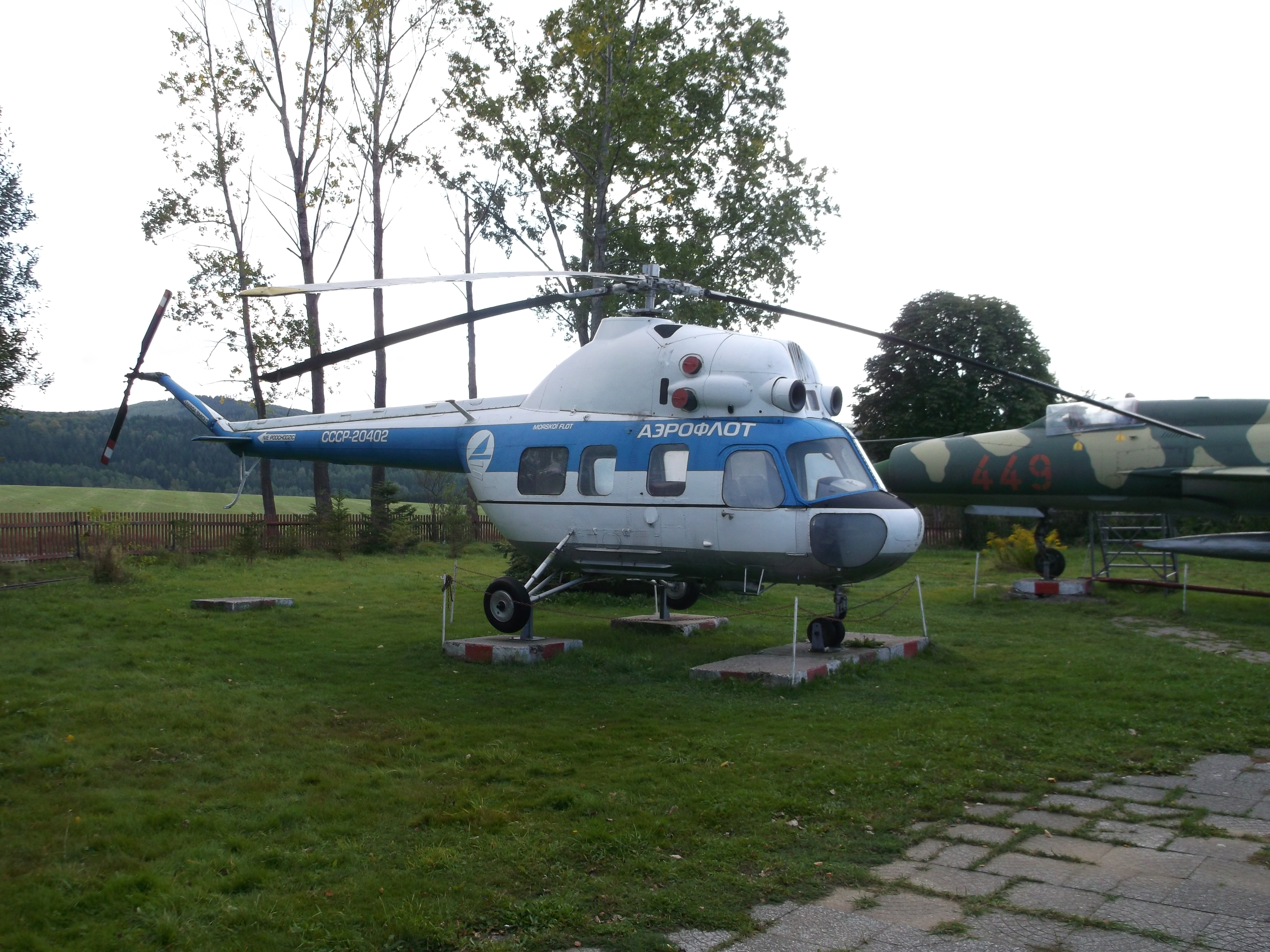 ex-Aeroflot Mil Mi-2 at the Cämmerswalde aircraft museum. Neuhausen, Saxony, Germany.